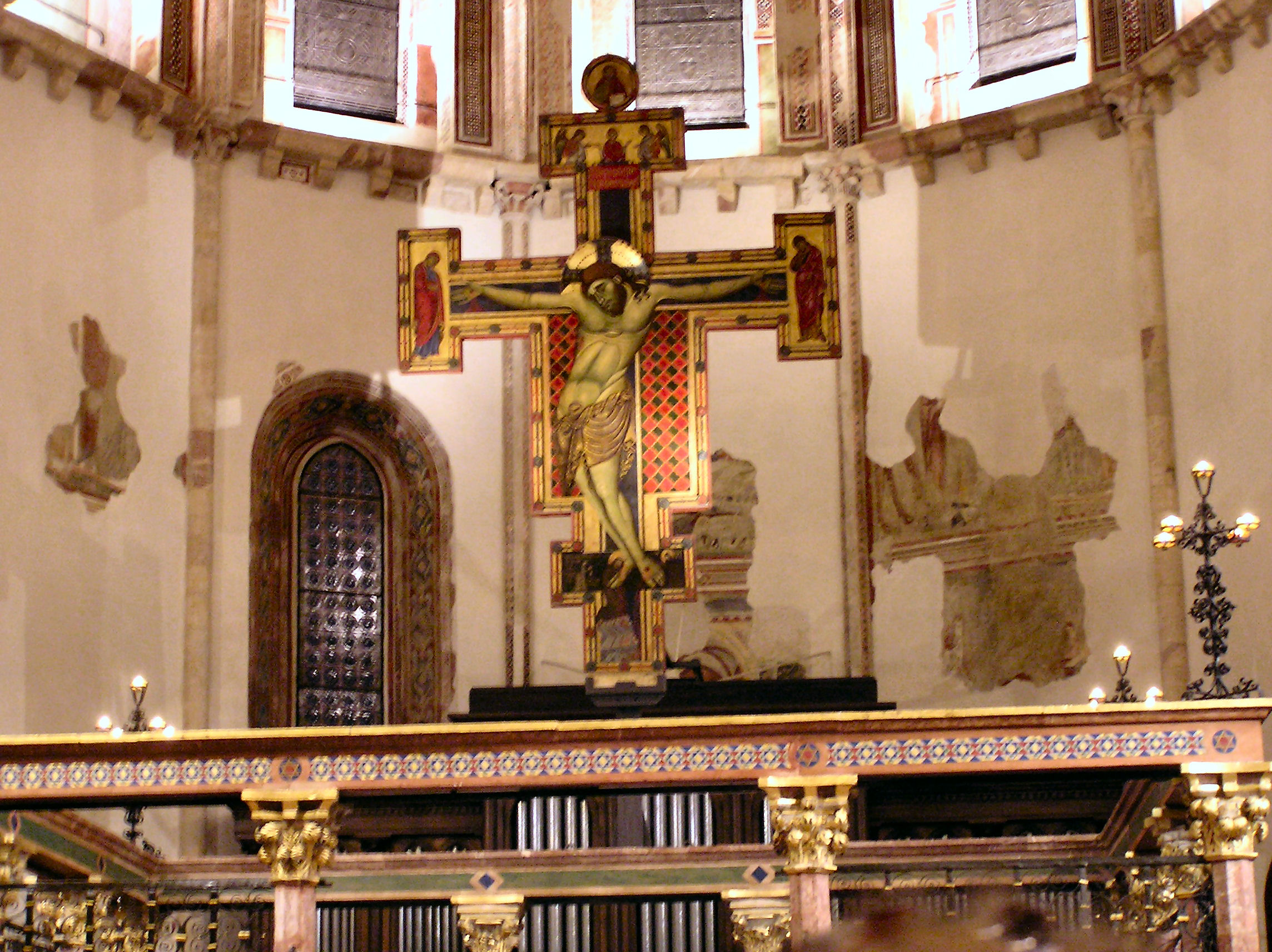 Assisi, Basilica di Santa Chiara; Altar with the crucifix, attributed to the Master of St. Francis